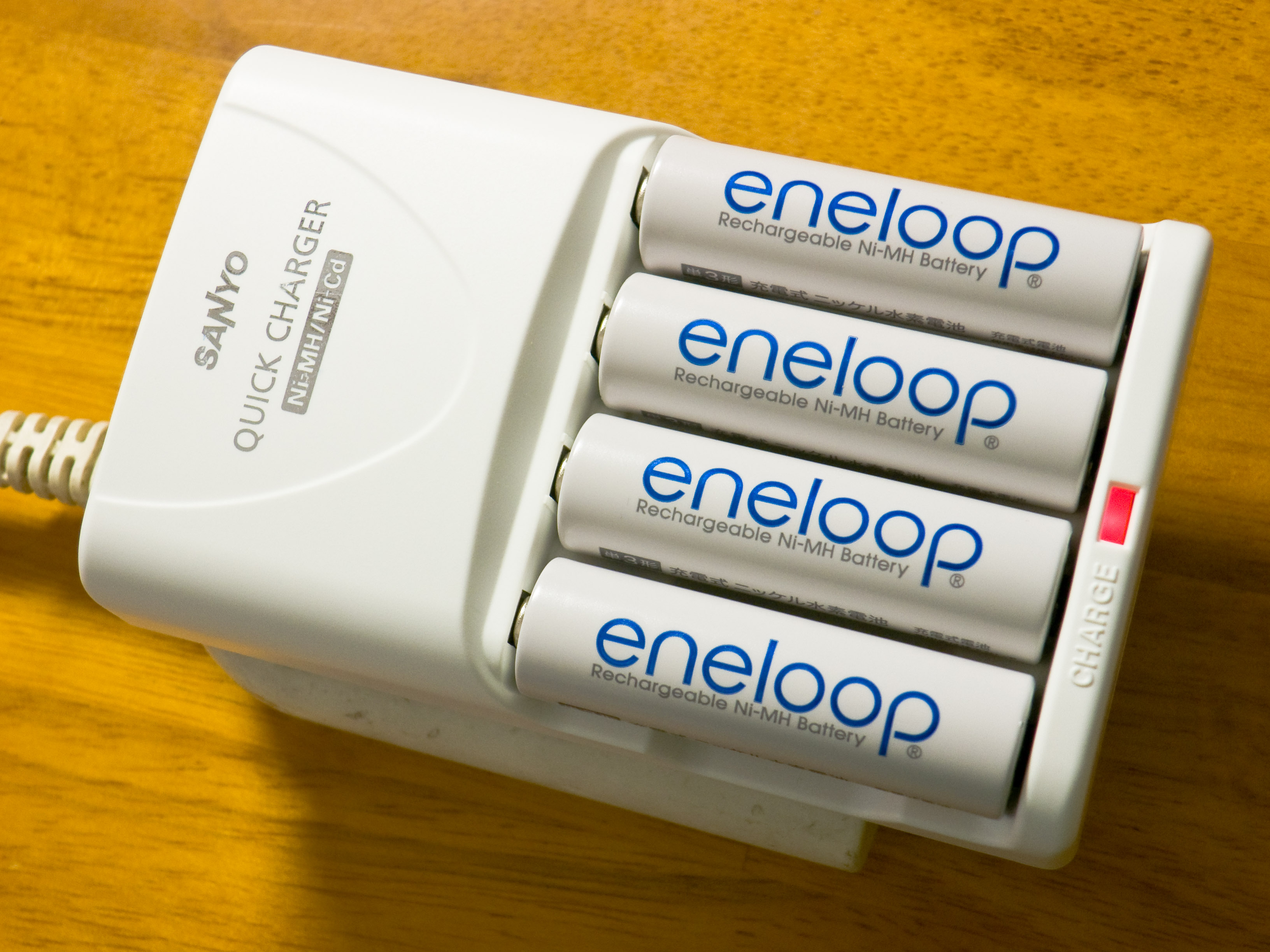 eneloop AA (ja), an example of Low self-discharge NiMH battery